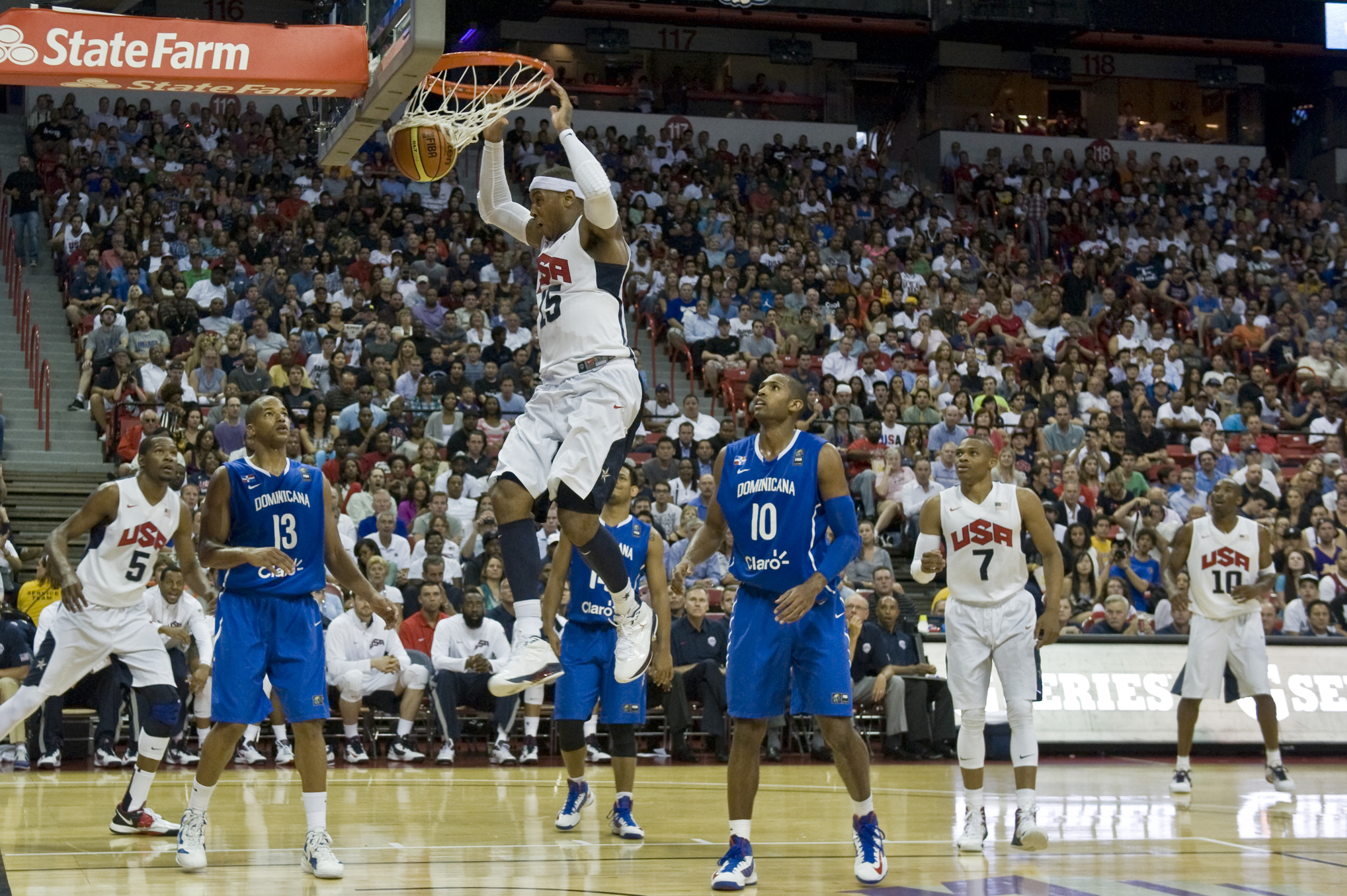 Carmelo Anthony, USA Olympic Men’s Basketball player, dunks the ball during an exhibition game against the Dominican Republic national team, July 12, 2012, at the Thomas and Mack Center, Las Vegas, Nev. Anthony and team USA will represent the USA in the 2012 Olympics.